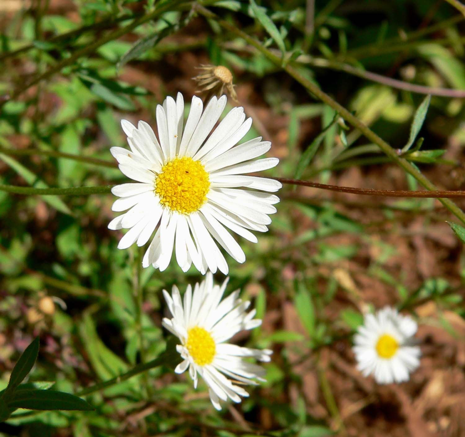 Photo of Erigeron karvinskianus (Mexican daisy) at the Springs Preserve garden in Las Vegas, Nevada